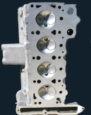 Lotus Big Valve Head Hemi Chambers